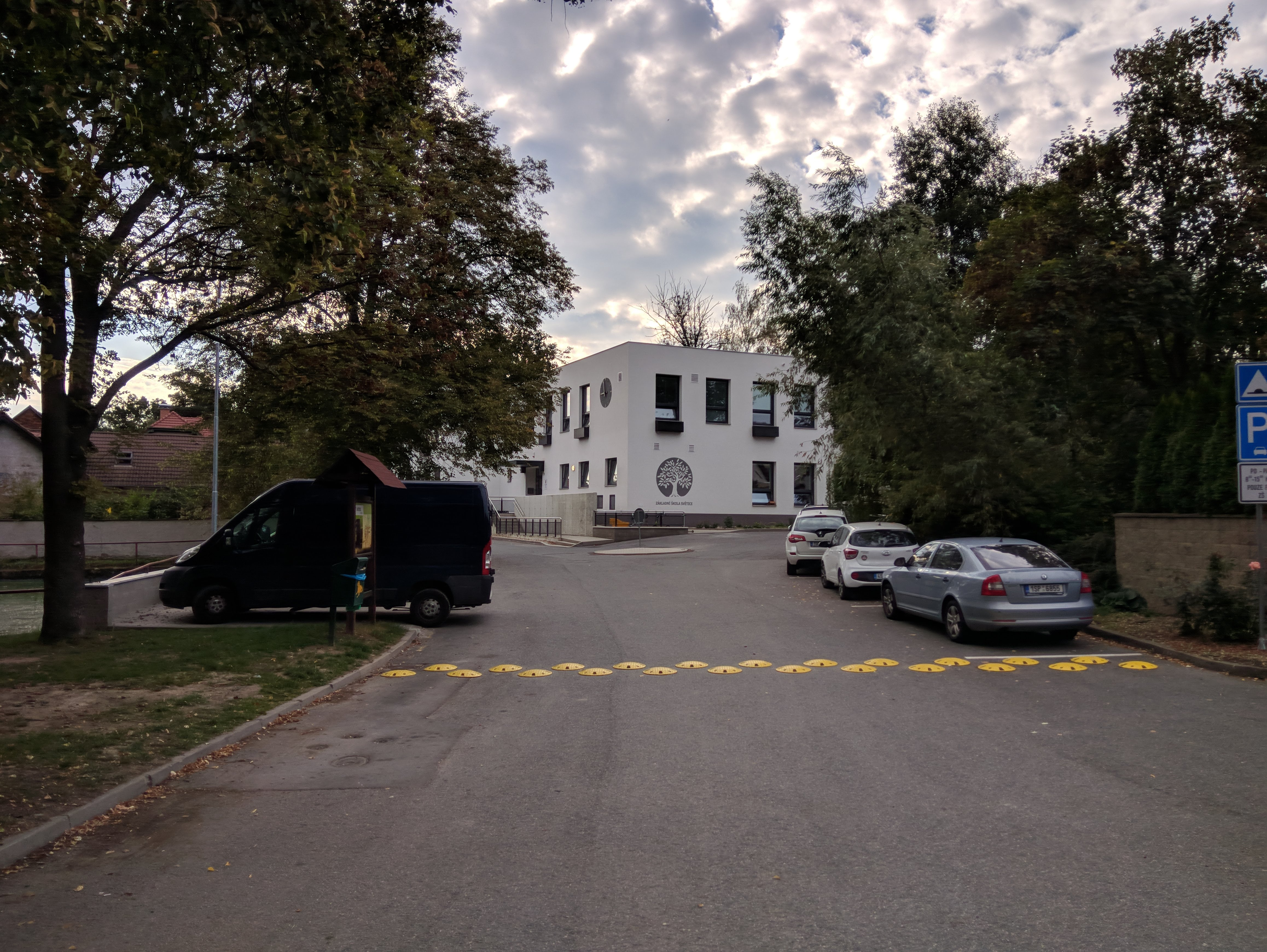 Village green in Světice with building of local elementary school